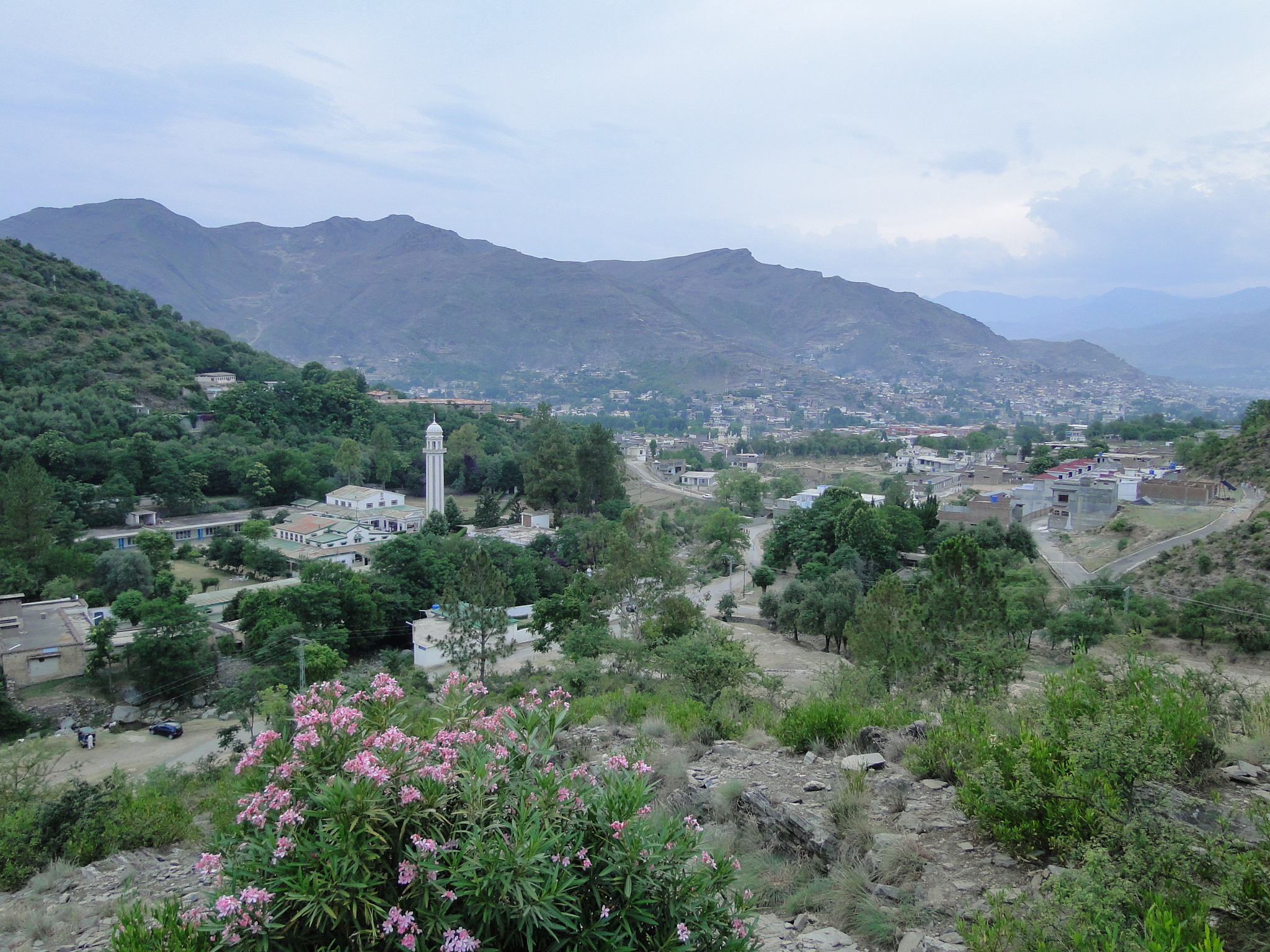 Aqba Masjid